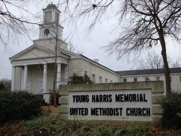 created for this article